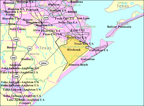 Map of Hitchcock, Texas